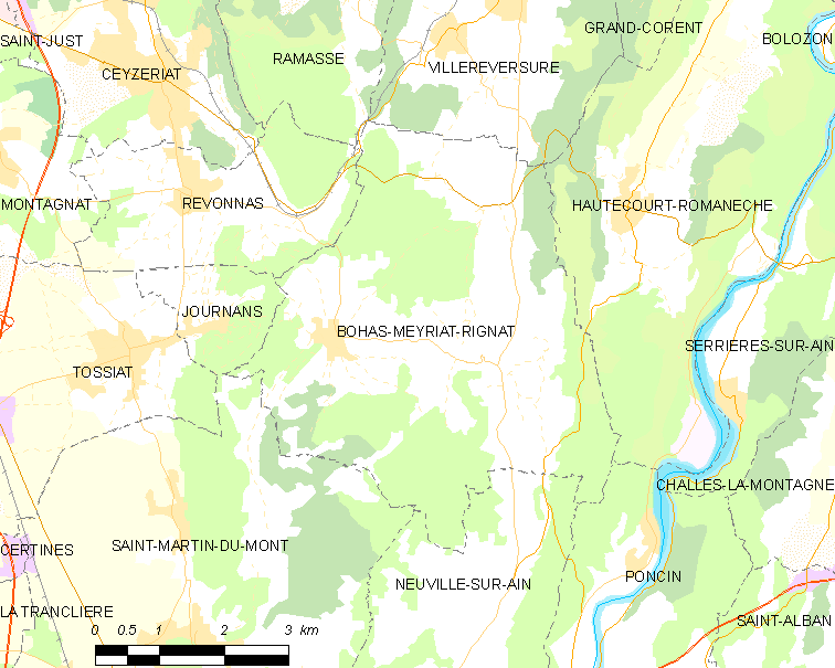 Map of French commune: Bohas-Meyriat-Rignat Map commune FR insee code 01245.png